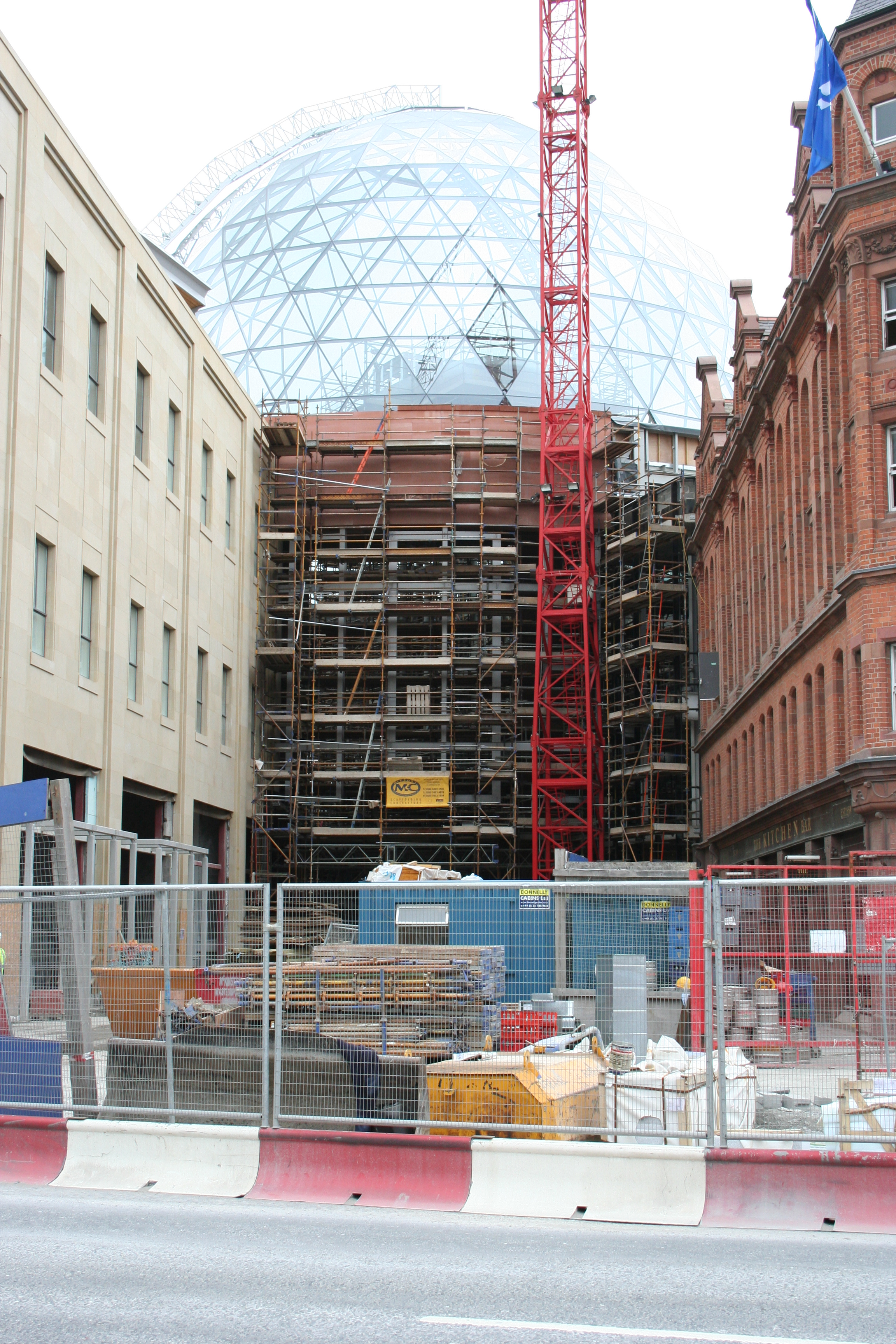 Construction of the Victoria Square retail development Belfast August 2007 Credit: A Peter Clarke image